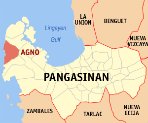 Map of Pangasinan showing the location of Agno